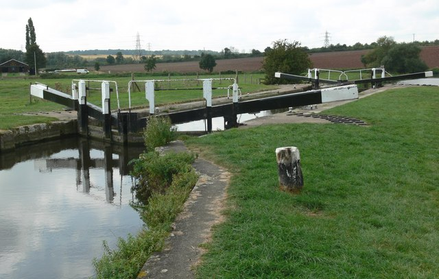 Zouch Lock On a small stretch of canal known as the Zouch Cut, which bypasses a loop of the River Soar. Located in the extreme south of Nottinghamshire, very close to the border with Leicestershire.